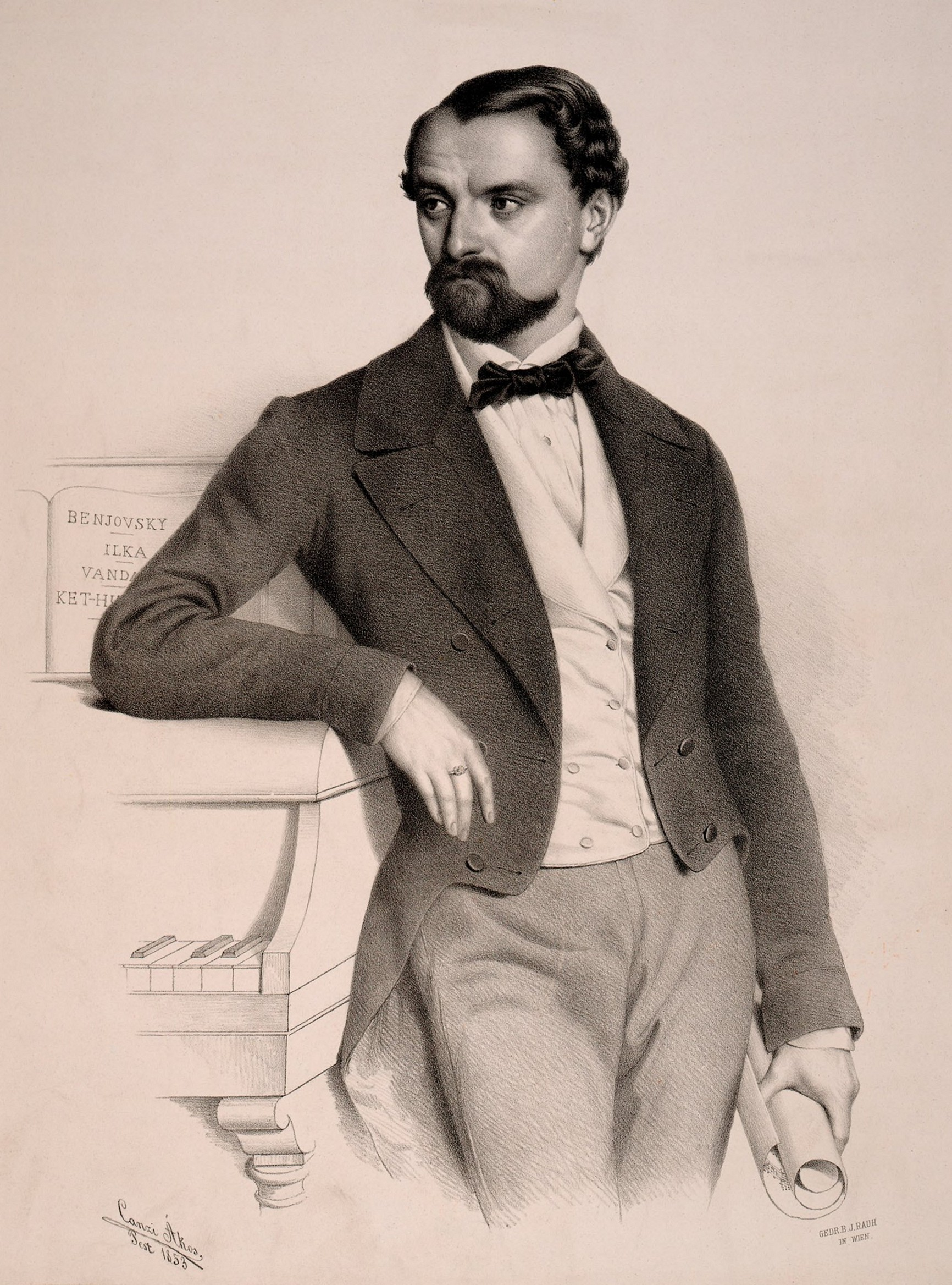 Austrian / Hungarian composer and flutist Franz Doppler (1821-1883)